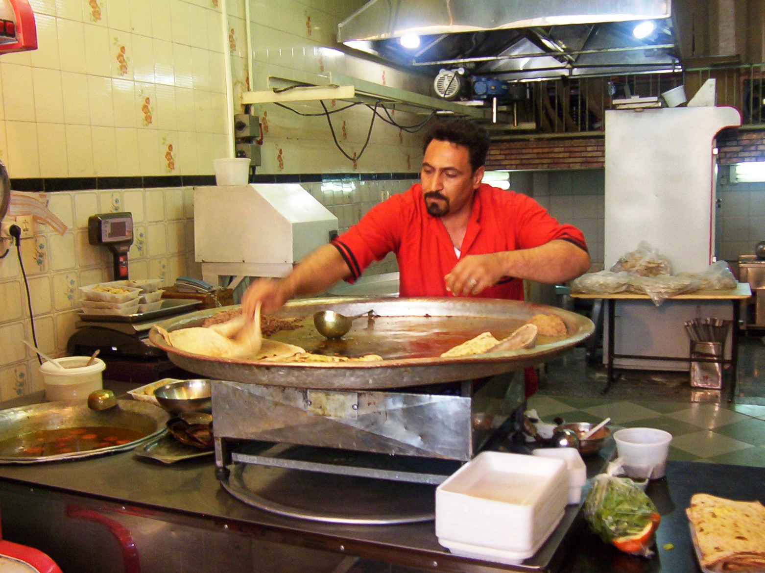 Beryani (Iranian Food)